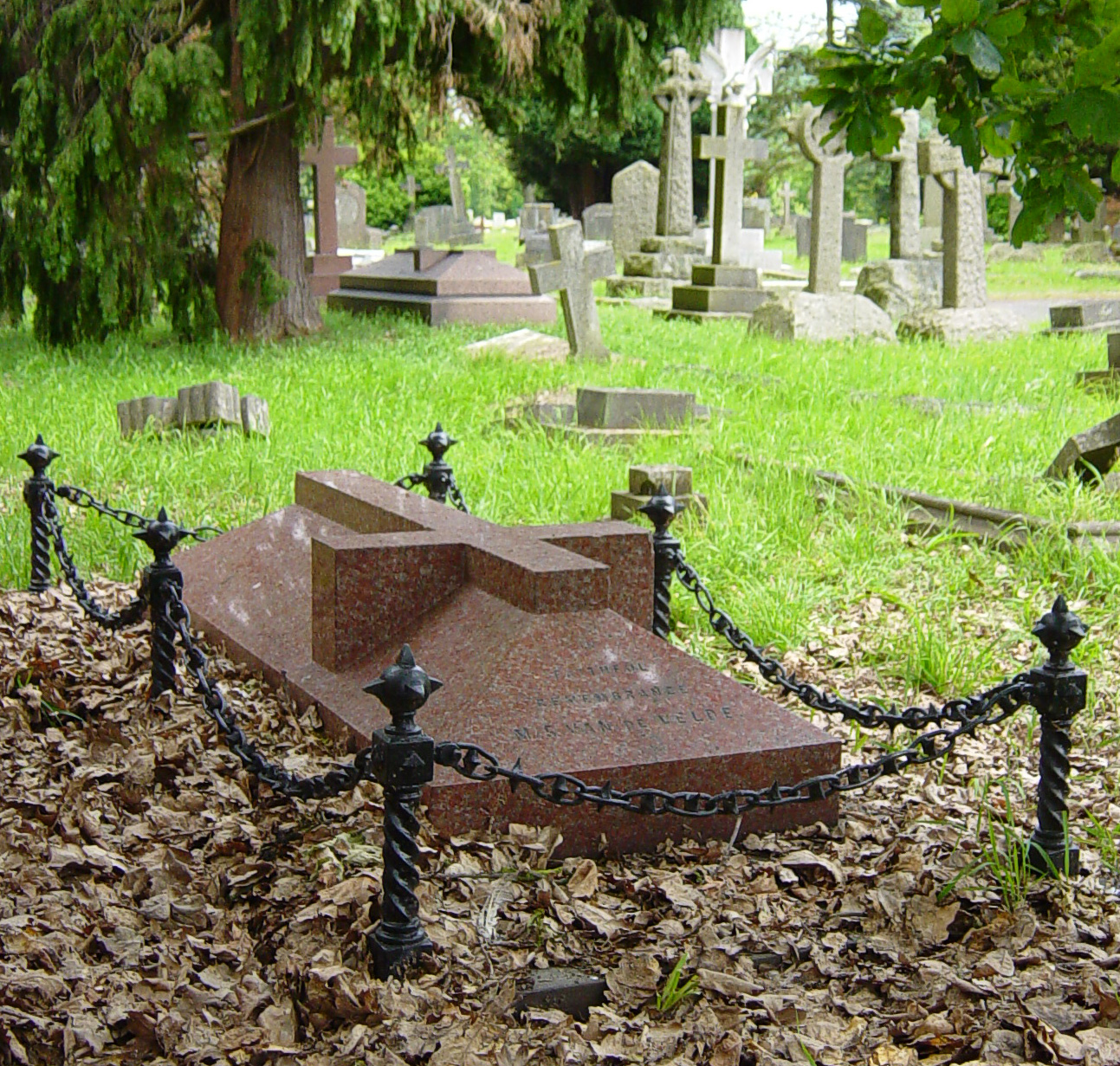 I took this photograph today of Bret Harte's gravestone in the Churchyard of St Peter's Church, Frimley, Surrey, England.